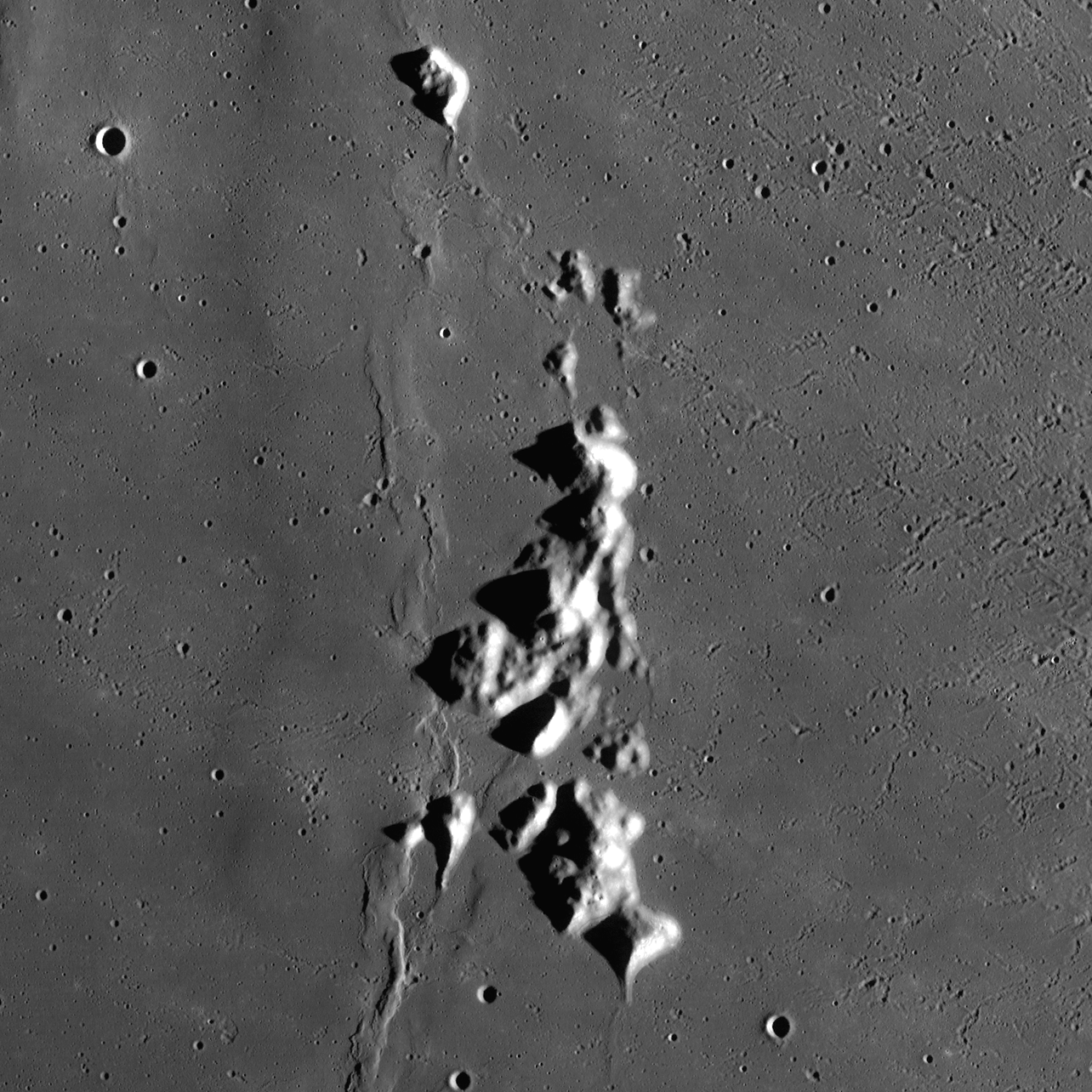 Montes Spitzbergen on the Moon, in Mare Imbrium. Centered at 35.0°N, 354.8°E (according to JMARS). Mosaic of photos by Lunar Reconnaissance Orbiter, made with Wide Angle Camera. Width of the photo is 113×113 km, north is up.